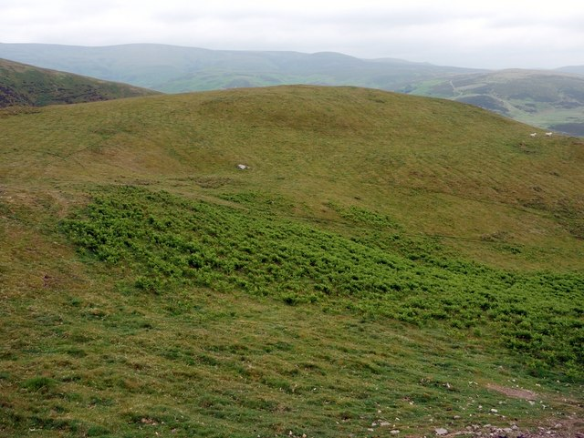 Scowther Knowe from Big Law The parallel lines of cord rig cultivation are clearly visible in the foreground and on the flanks of Scowther Knowe. This is a system of cultivation practiced in prehistoric and later upland Britain. Spades were used to excavate raised banks for cultivation with channels running alongside for drainage. It gives rise to parallel ridges of earth around 1 m wide and 0.15 m high separated by shallow furrows in small fields. In this case the presence of cord rig is associated with a palisaded settlement with inner hut circles near the summit of Scowther Knowe which is clearly visible on aerial photographs.